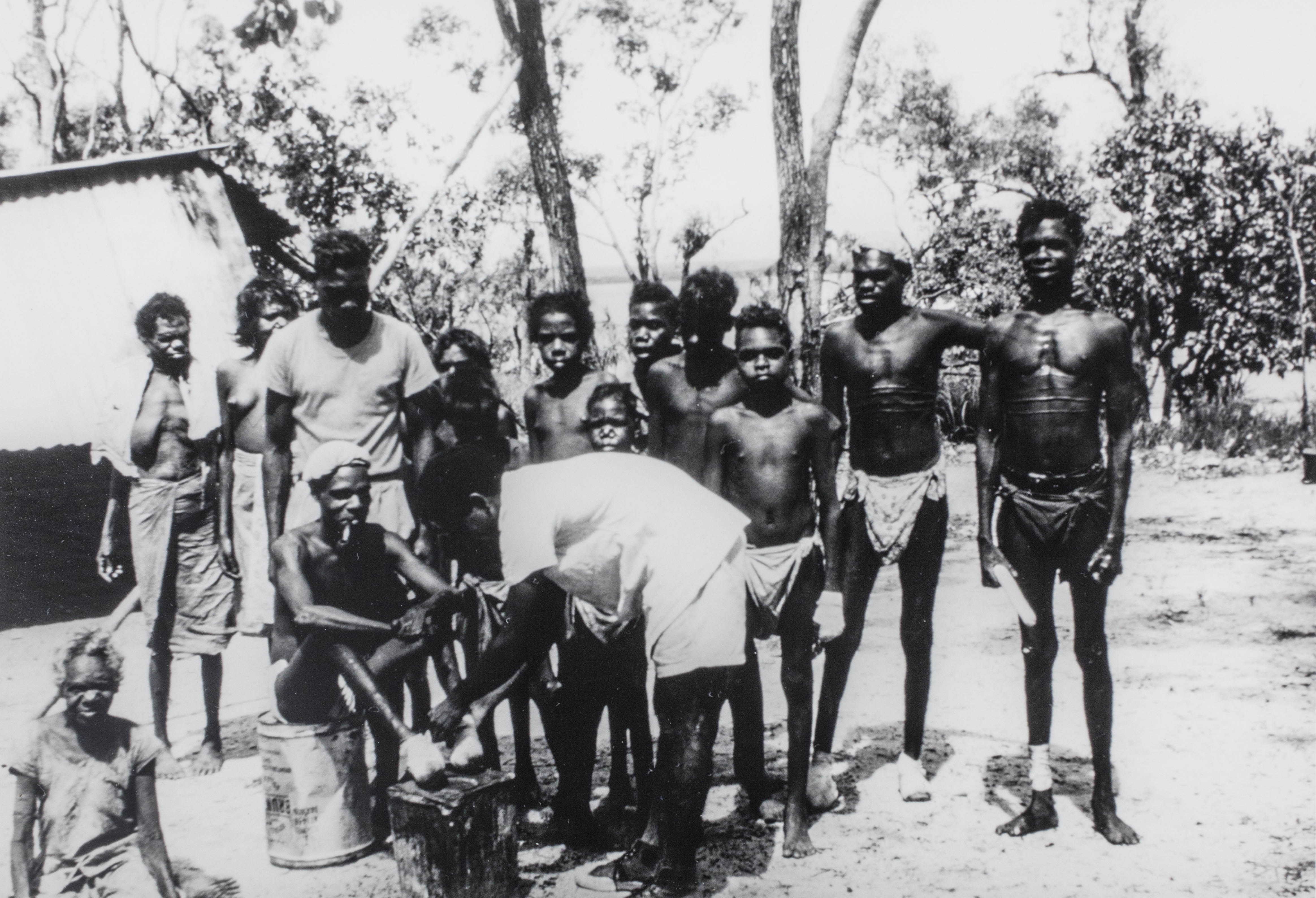 Phillip Roberts, Aboriginal Medical Field Assistant, dressing leprosy patients wounds in Maningrida, in the Northern Territory of Australia.